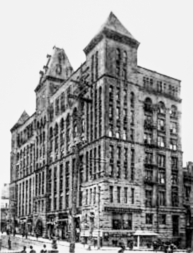 The former Marquam Building in SW Portland, Oregon. The site is now occupied by the American Bank Building.